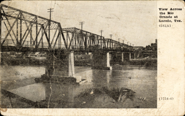 Bridge over Rio Grande at Laredo Texas